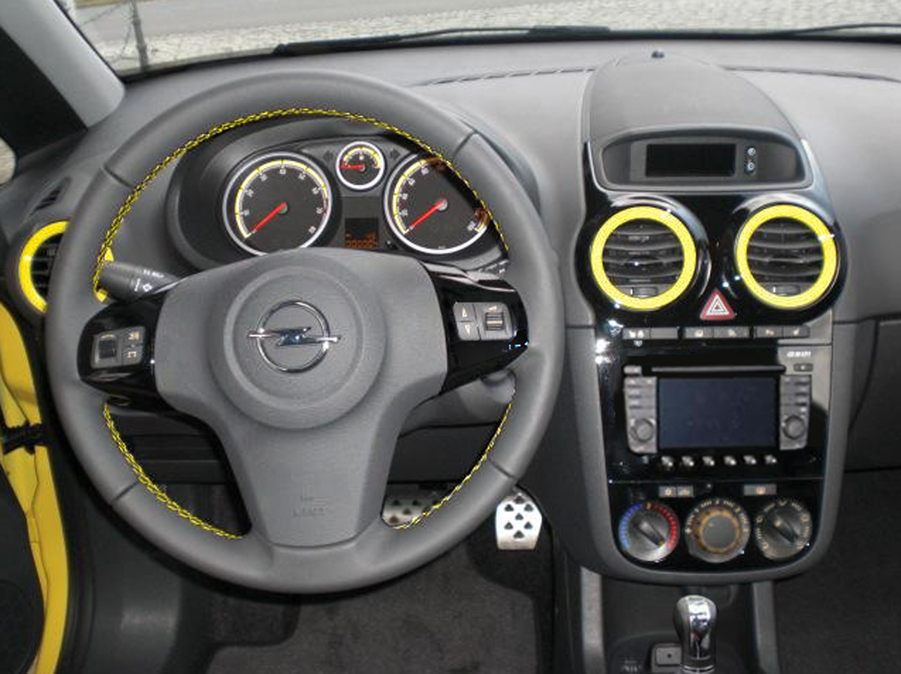 Facelifted Model, Color Edition